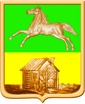 Coat of arms of the city of Novokuznetsk, Kemerovo Oblast.